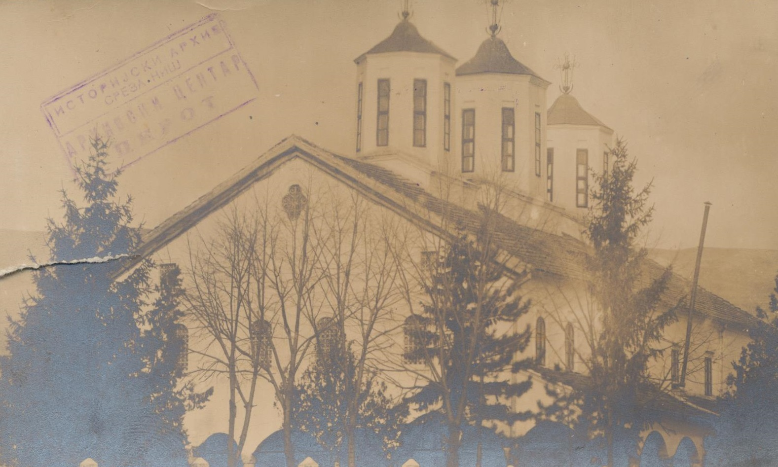 Postcard from Pirot, Church Saborna crkva